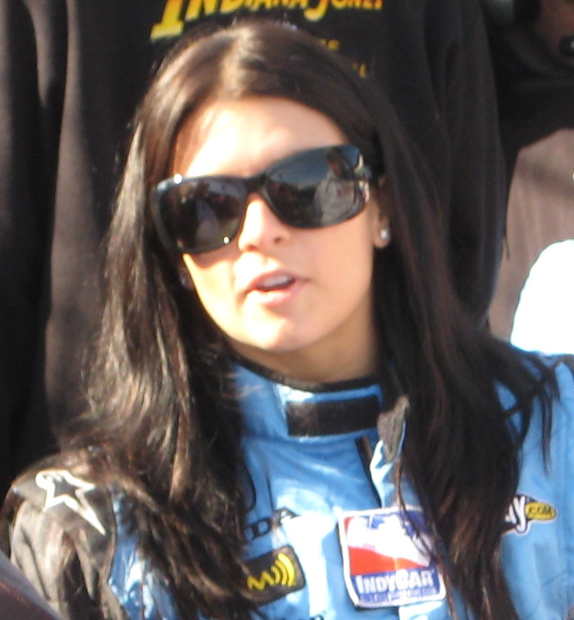 Andretti Green Racing's Danica Patrick at the Indianapolis Motor Speedway for Pole Day for the 2008 Indianapolis 500 on Saturday, May 10, 2010.